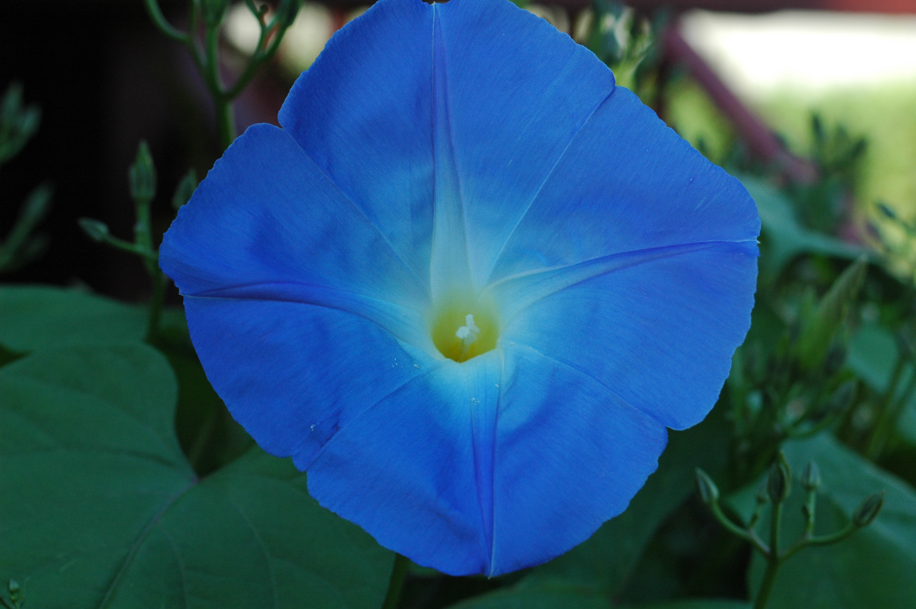 Photograph of Ipomoea tricolor taken by me (invalidsyntax).